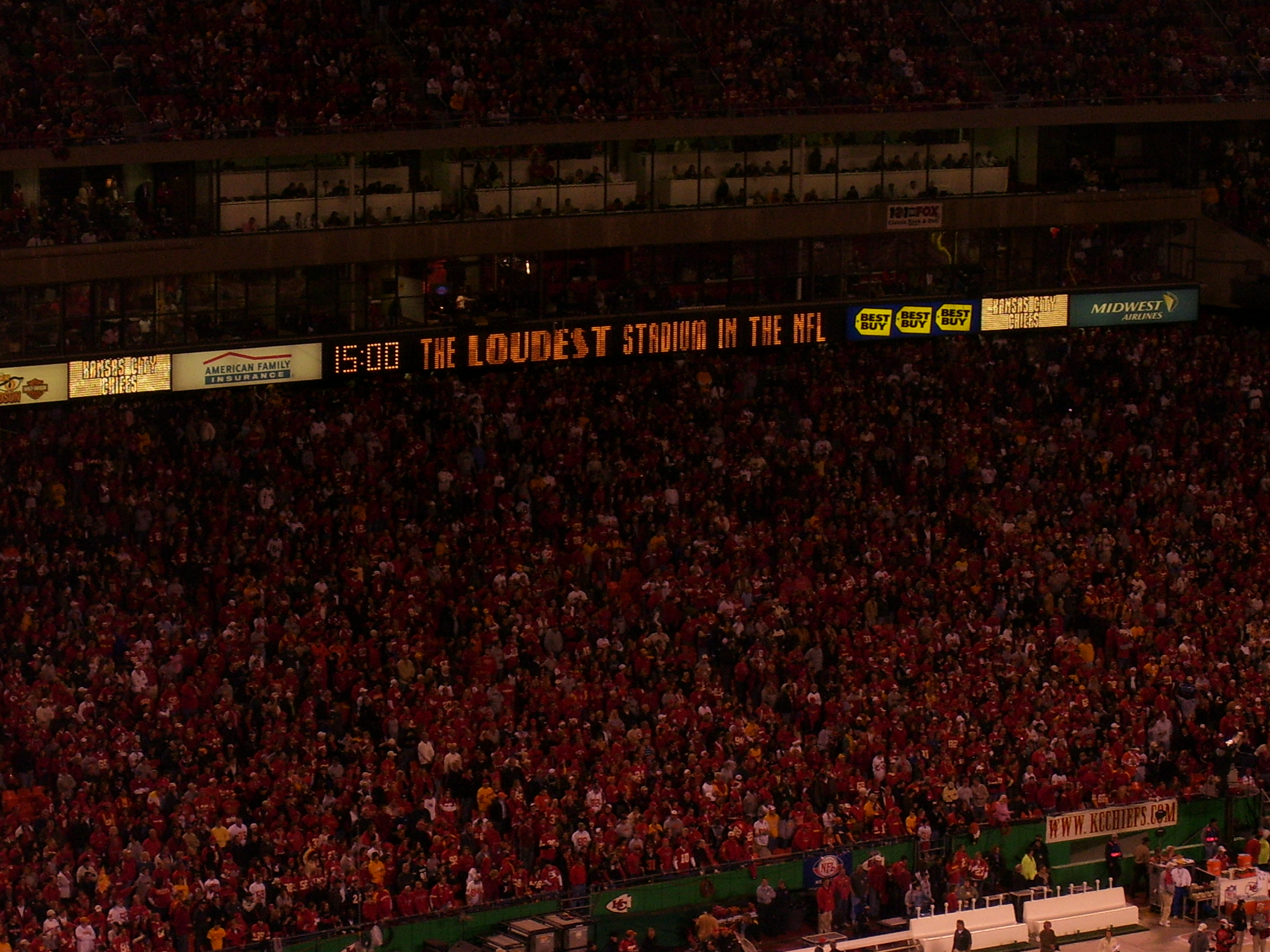 Denver Broncos at Kansas City Chiefs, NFL Thanksgiving tripleheader game, 2006, at Arrowhead Stadium in Kansas City, MO.